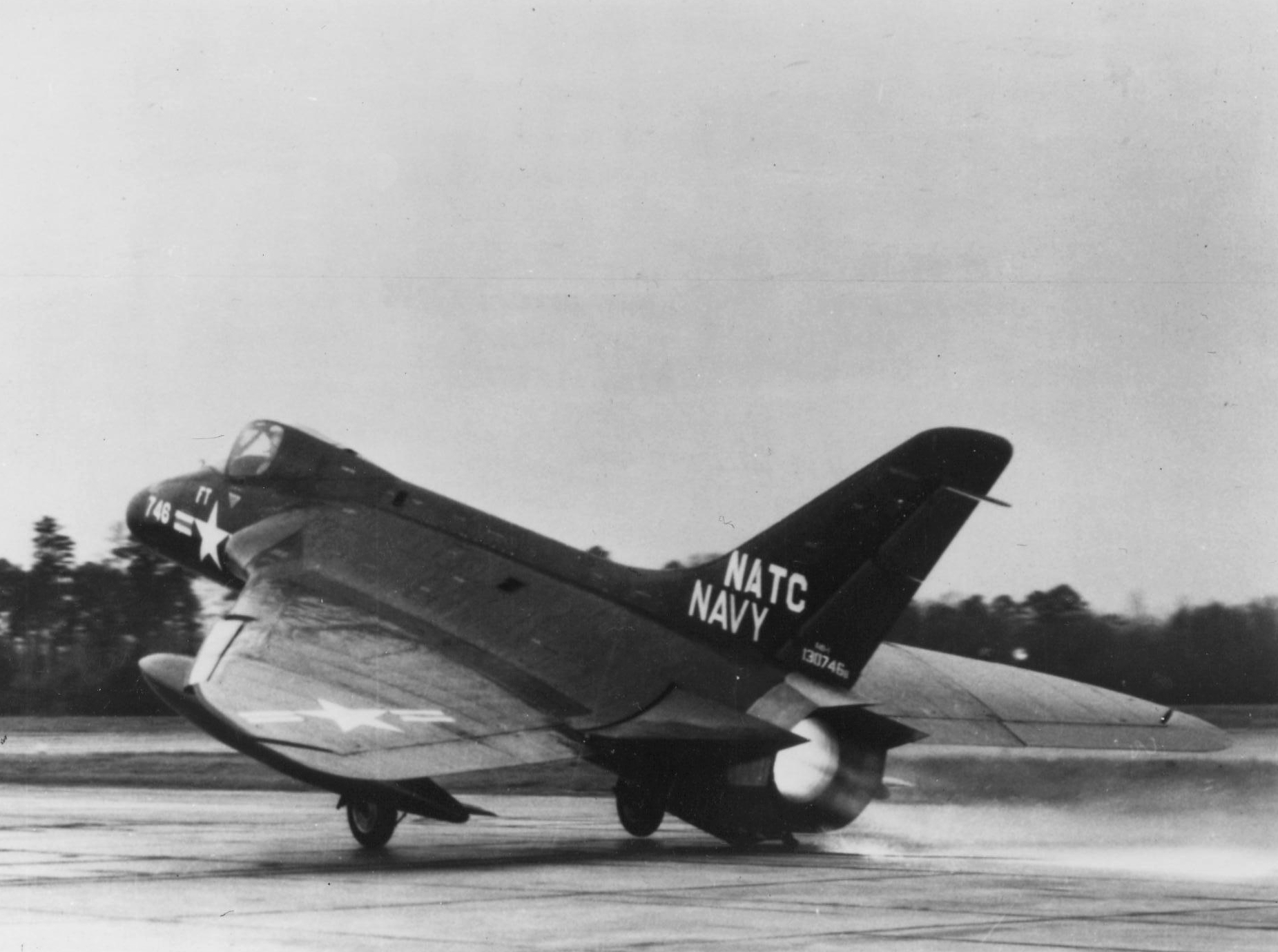 A Douglas F4D-1 Skyray (BuNo 130746) of the U.S. Navy Naval Air Test Center taking off after having been catapulted by the stationary steam catapult at the NATC at Patuxent River, Maryland (USA), in 1956.